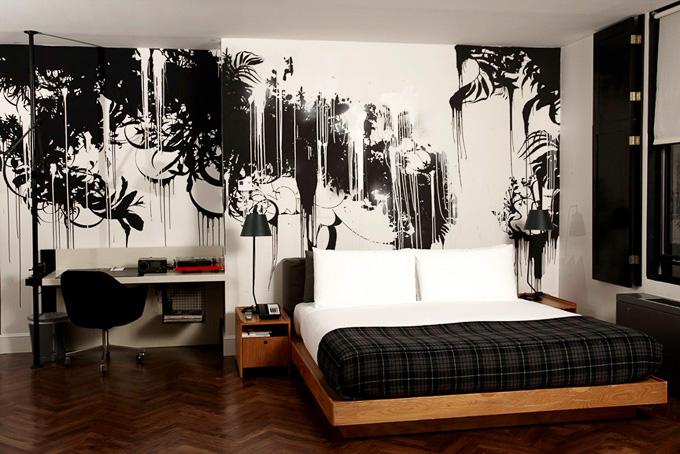 Artist: Mint&Serf Photo: Jordan Seiler Location: Ace Hotel New York